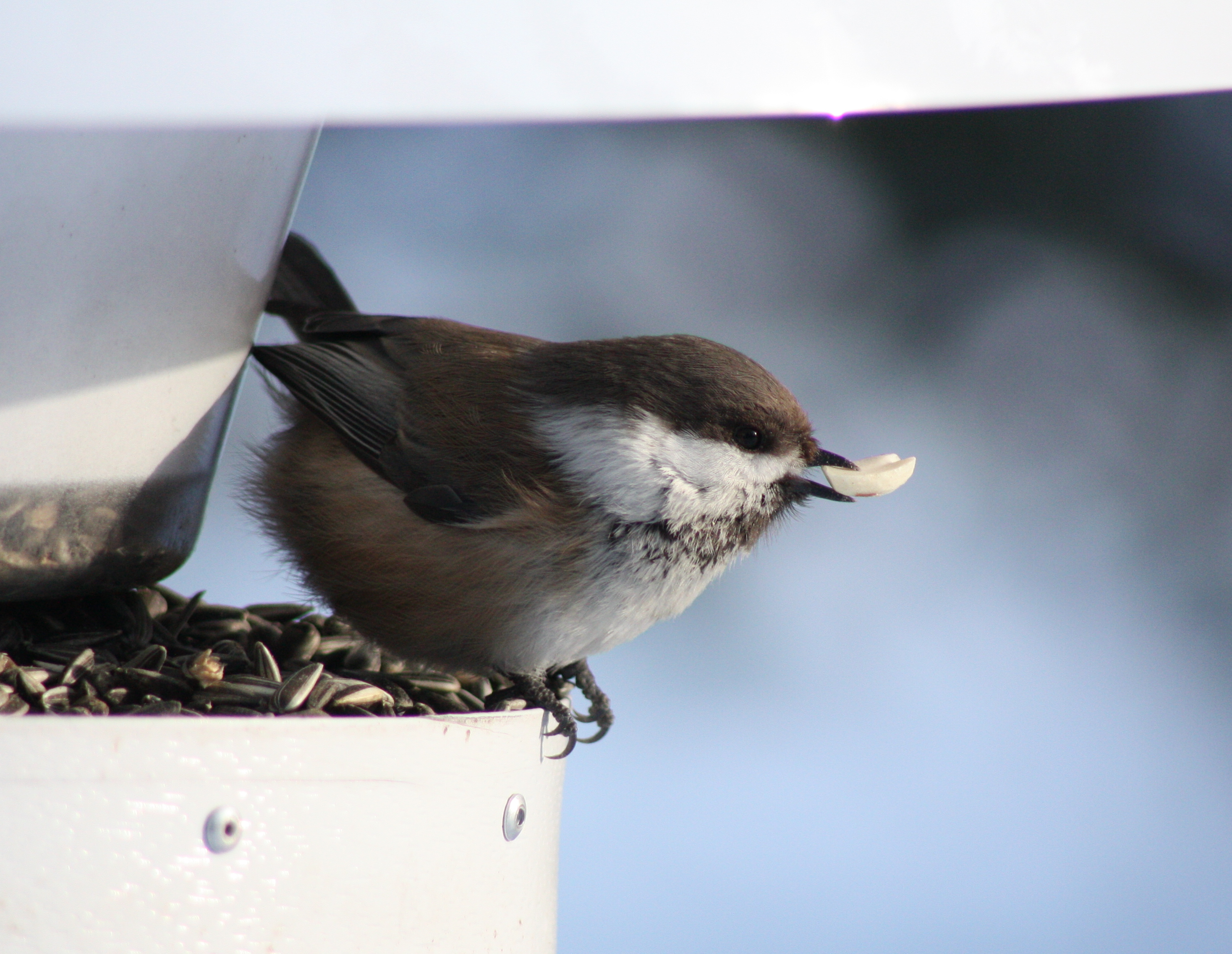 A siberian tit (Poecile cinctus, formerly Parus cinctus) in Kittilä, Finland.